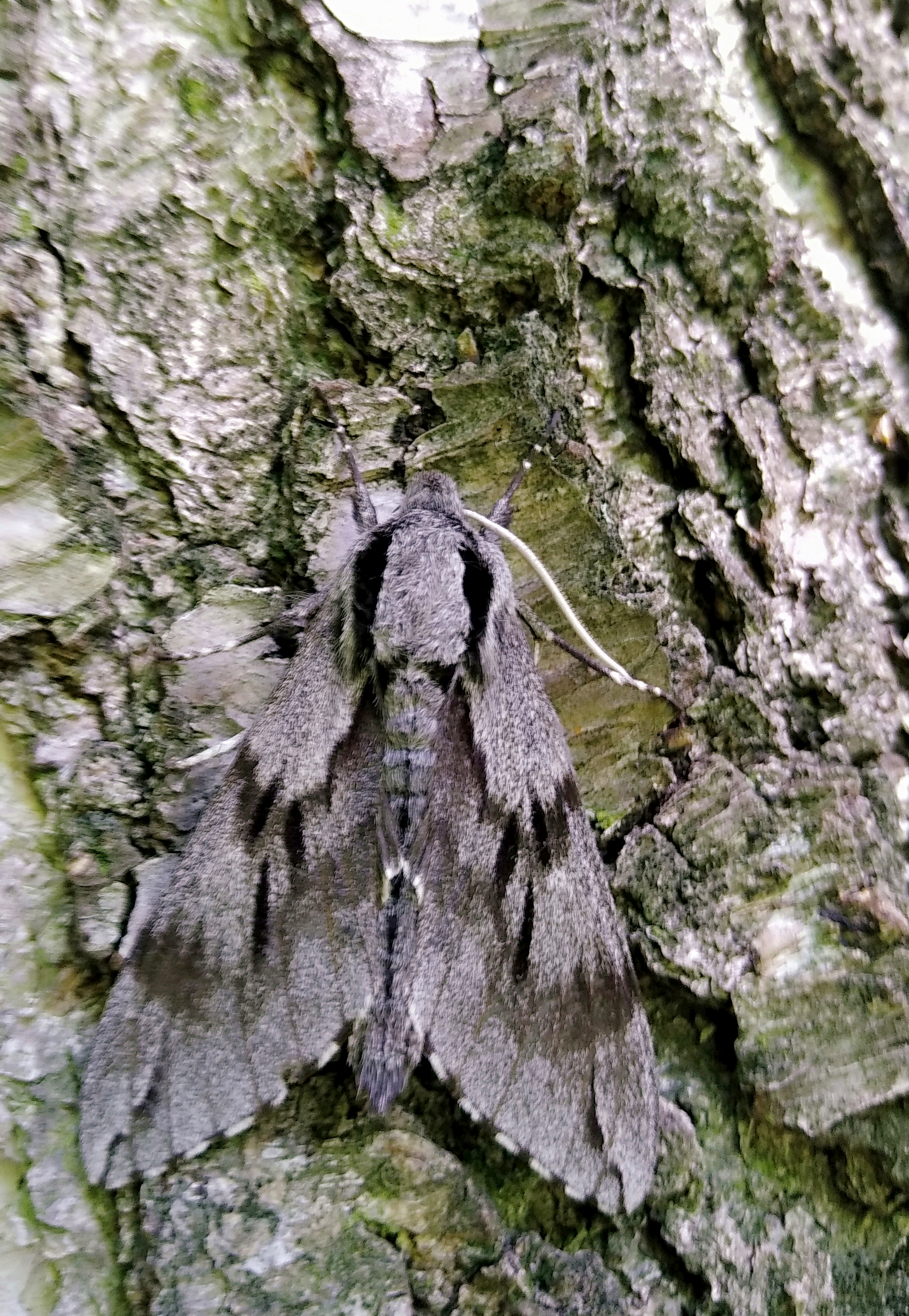 Lago di Villa (Challand-Saint-Victor, AO, Italy): Sphinx pinastri on the bark of a birch tree